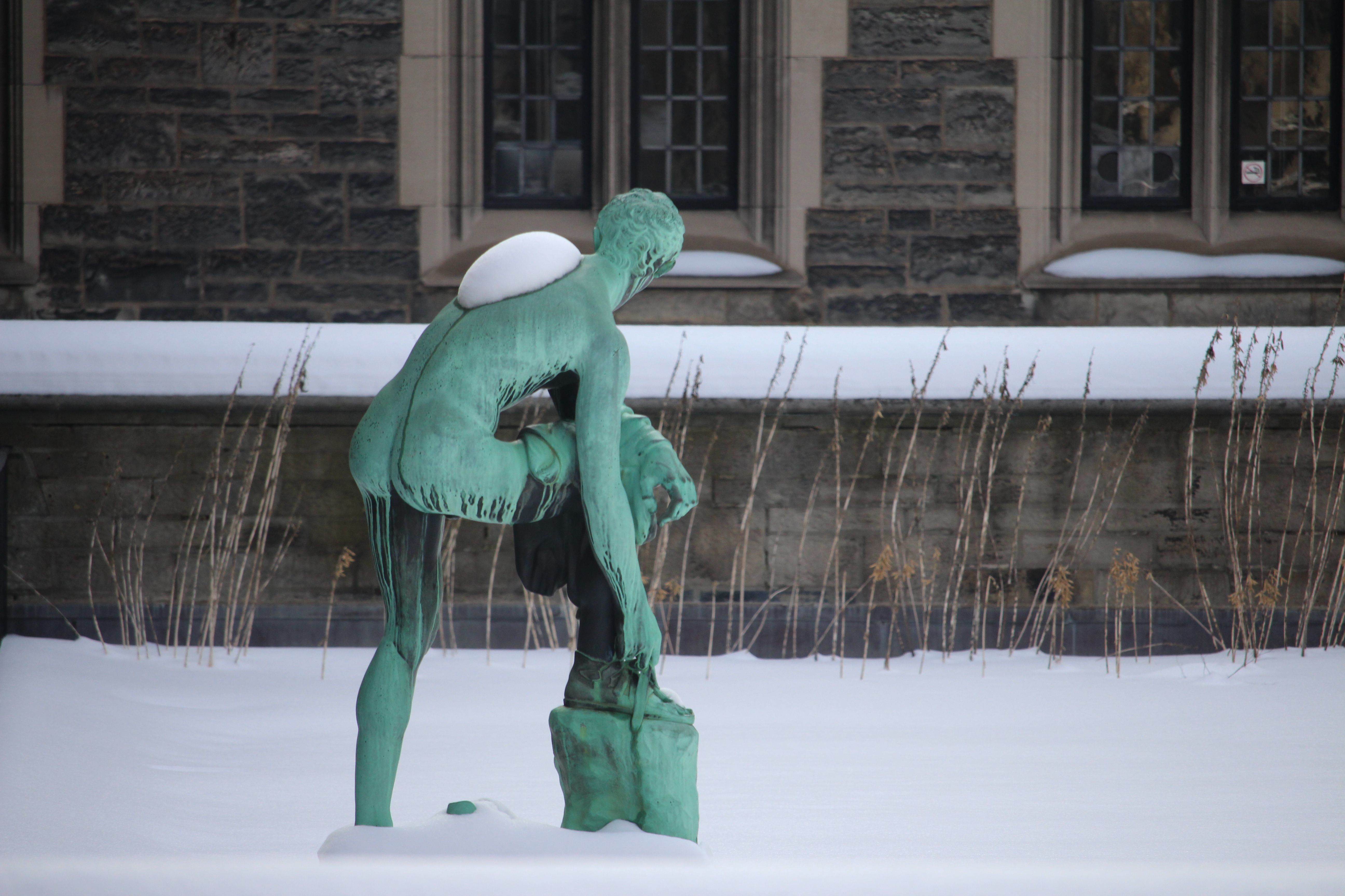 A rear view of a statue of Mercury in the Hart House Quadrangle